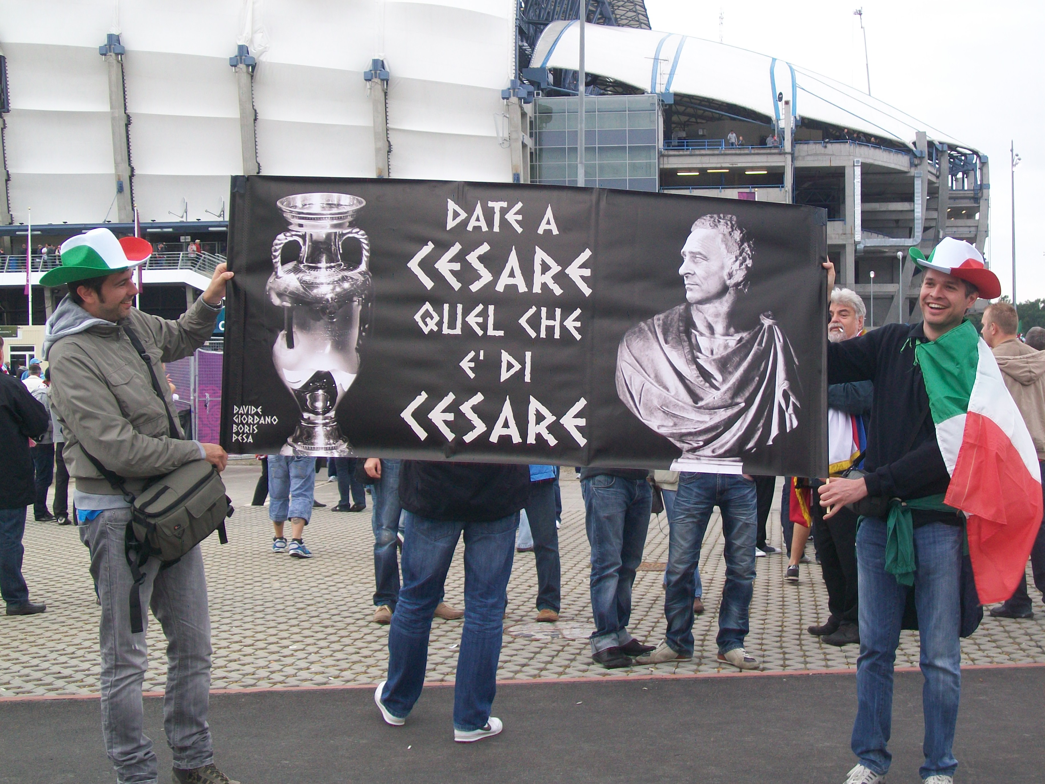 Italian supporters before Croatia - Italy match during Euro 2012 with a banner Date a Cesare quel che è di Cesare - Render unto Caesar the things which are Caesar's, Poznań, June 14